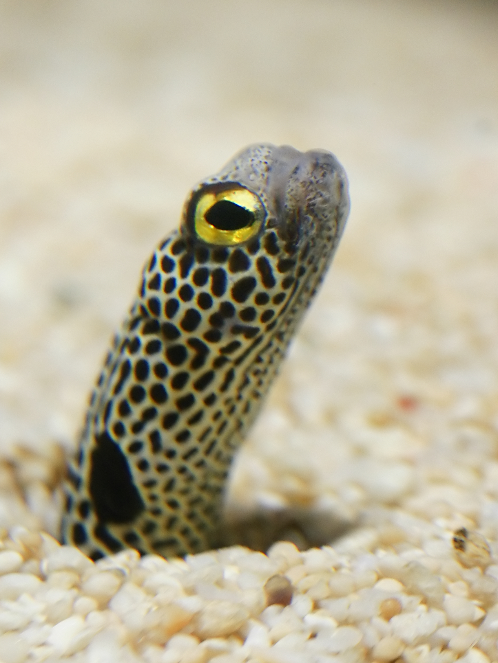 Spotted garden eel at Nausicaä Centre National de la Mer, Boulogne-sur-Mer, France